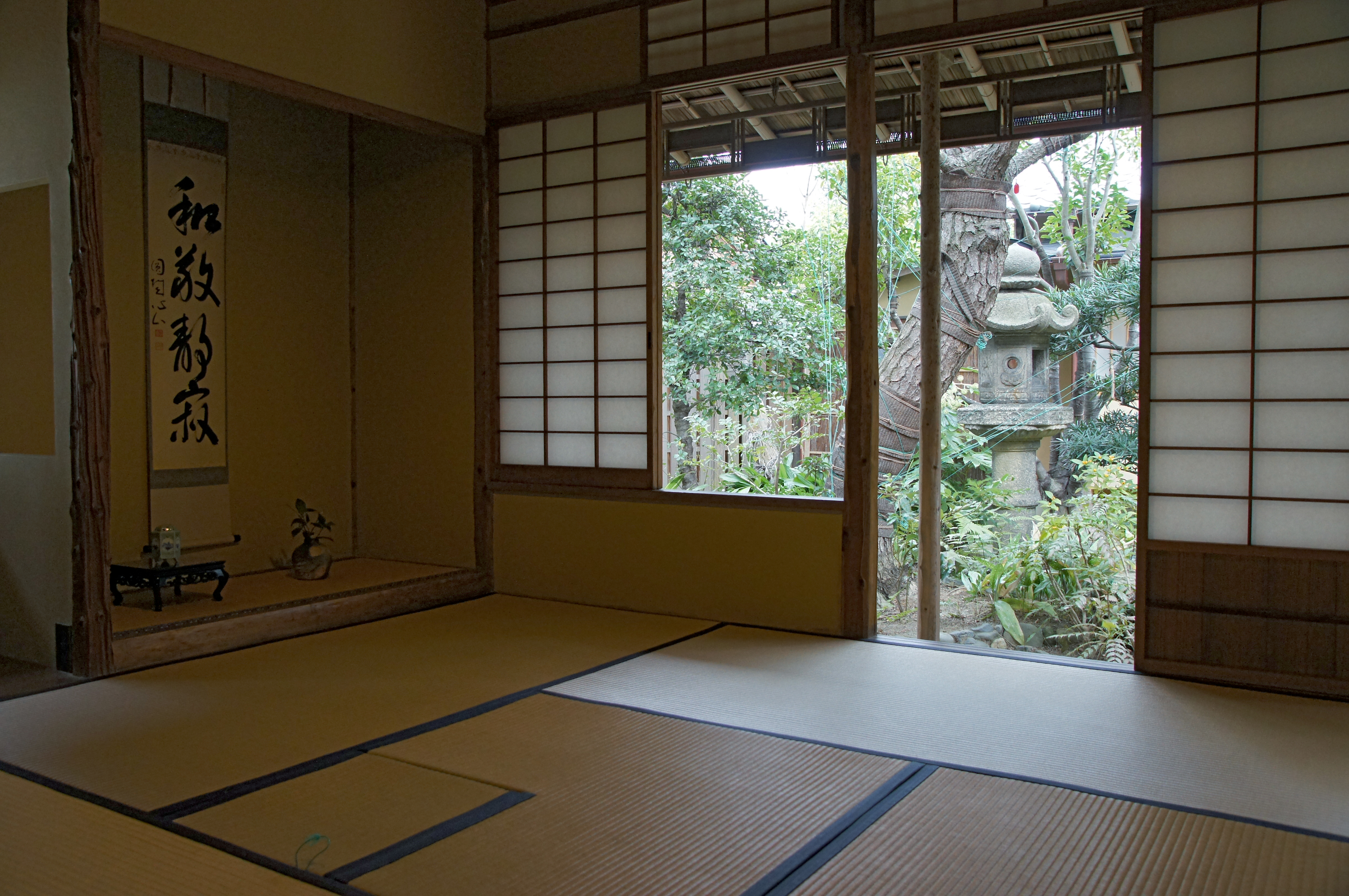 Former Kinoshita House in Kobe, Hyogo prefecture, Japan